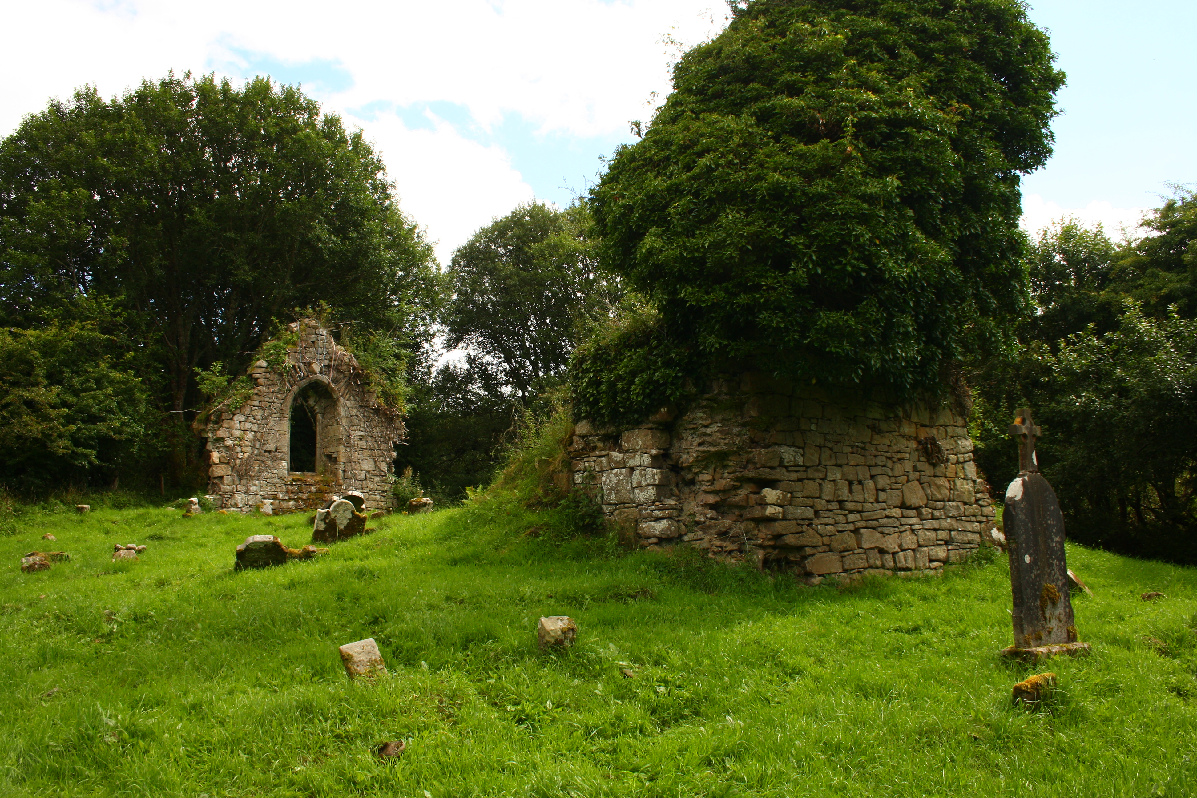 Carrick church, Derrygonnelly, County Fermanagh. Taken August 2012